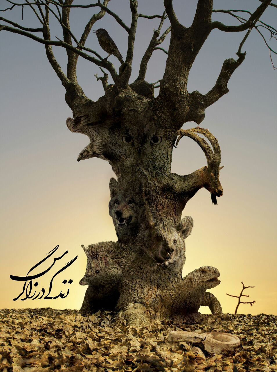 mehdi nourmohammadi